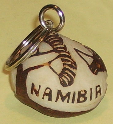 Souvenir about Namibia, made of vegetable ivory